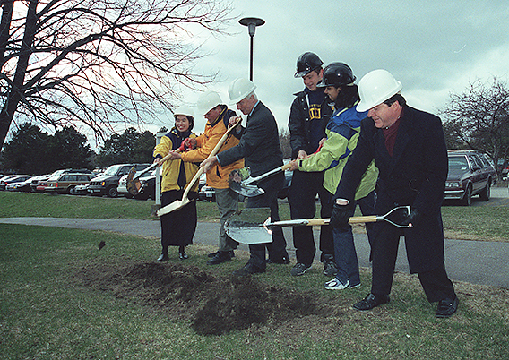 Sod Turning Ceremony